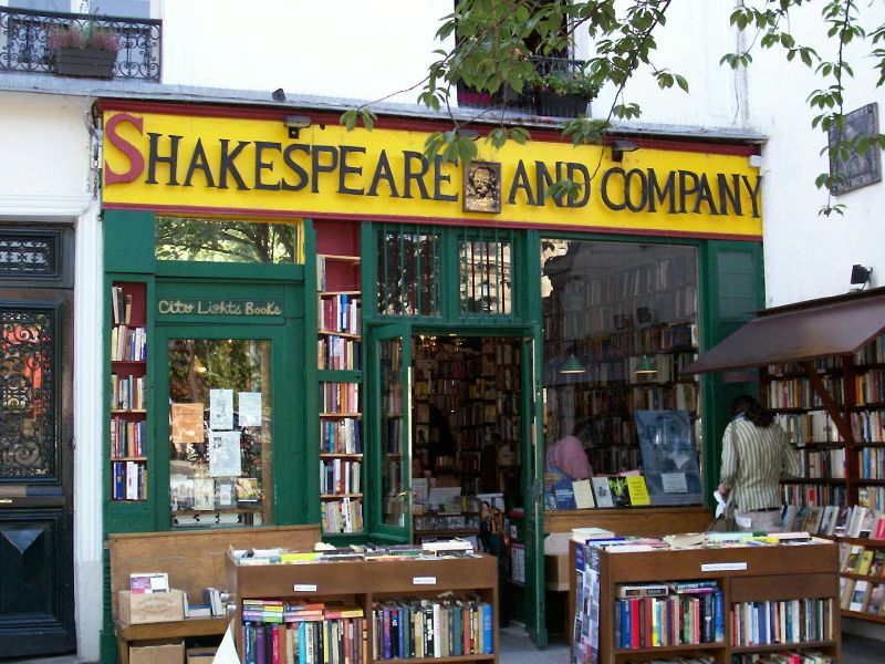 Shakespeare and Company